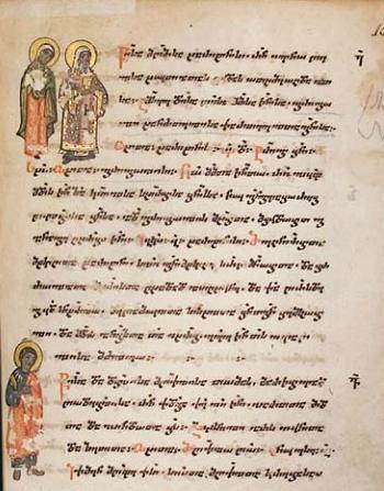 A manuscript of the Georgian religious calendar from 1718 (MSS A-425, Georgian National Center of Manuscripts). The miniatures depict saints Charitina of Amisus, Gregory of Khandzta, and Thomas the Apostle.